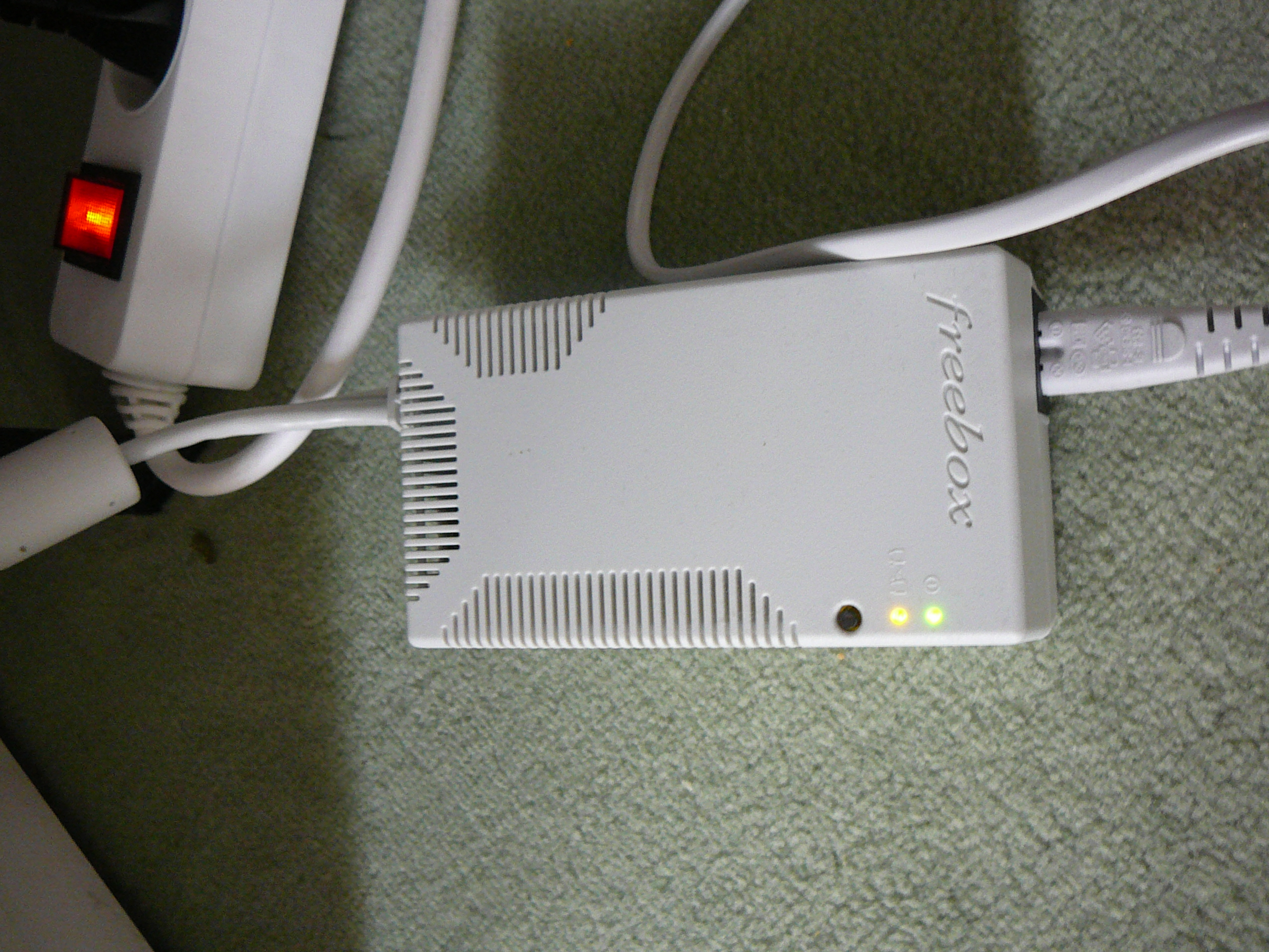 The "freeplug" PLC adapter, shipped by Free.fr for its "triple-play" offer